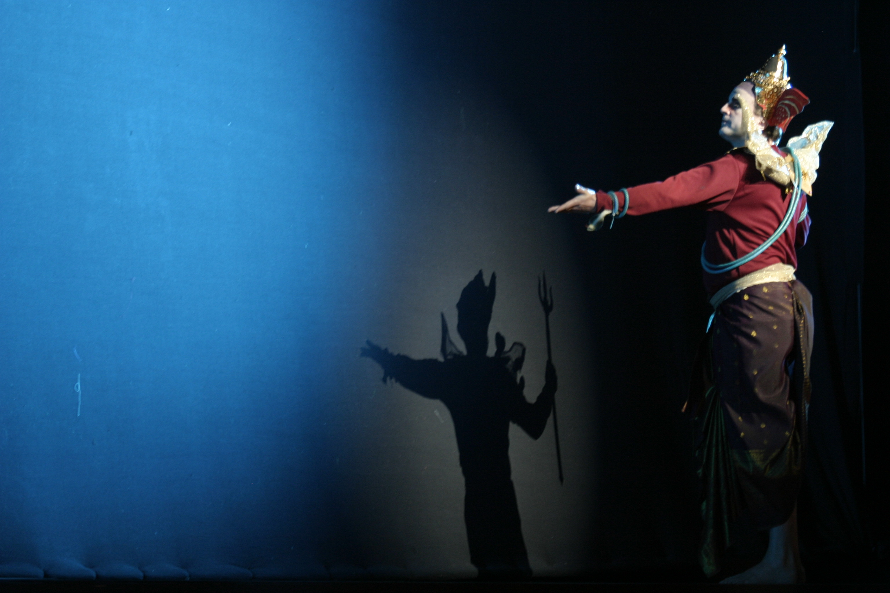 Countertenor Michael Chance as Ganesha in Somtow's opera "Ayodhya". From Bangkok Opera's photographer. PR shot, may freely be disseminated.